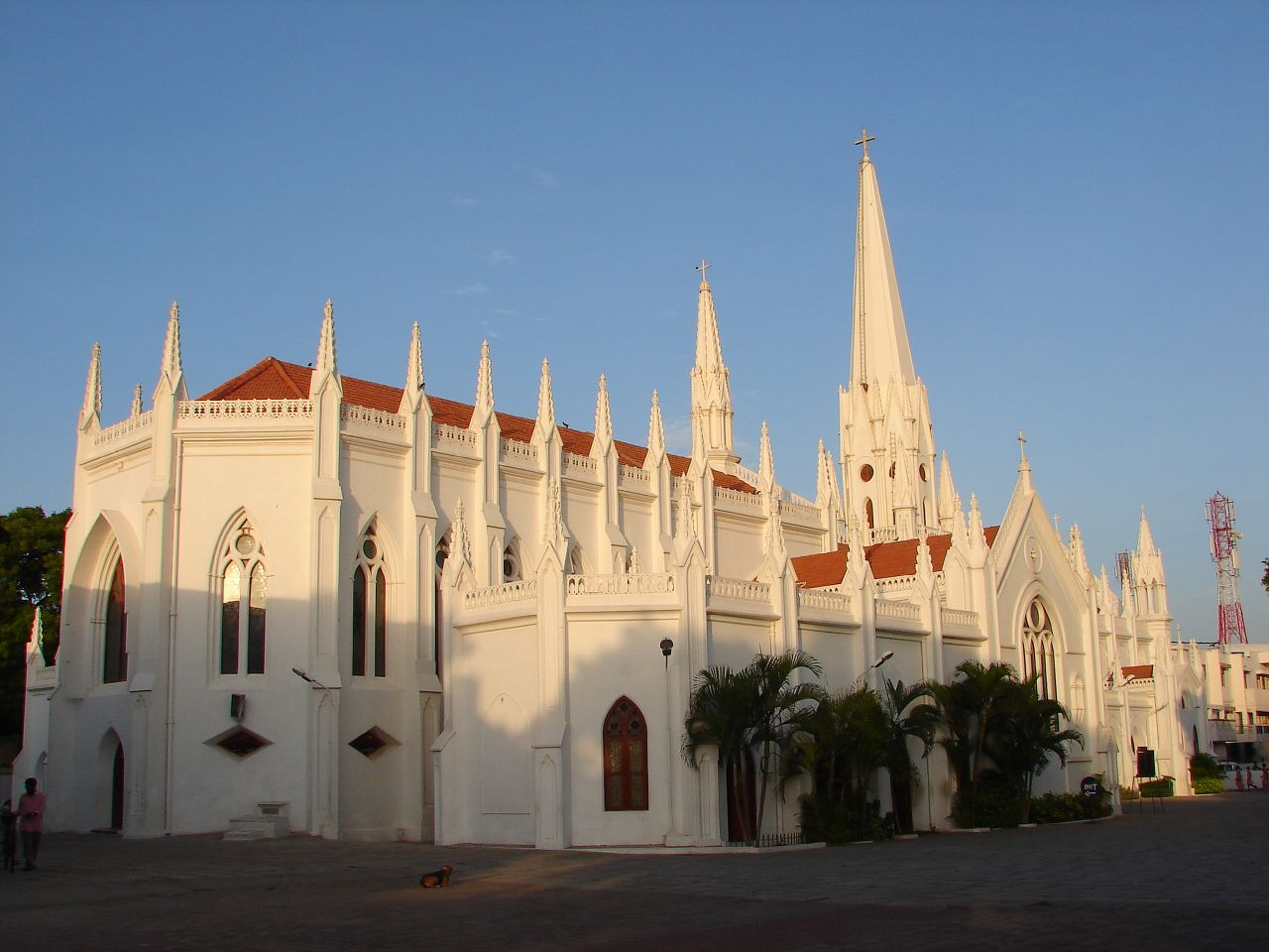 Built over the tomb of apostle St. Thomas, the Santhome Cathedral is an important pilgrimage centre. According to legends, St. Thomas arrived in India from Palestine in AD 52 and died after 26 years. The church was built after a millennium, probably by the Persian Christians, and his remains were moved inside. The church was refurbished in 1606 and made into a cathedral. Again, in 1806, it was rebuilt as a basilica. Chennai, India.